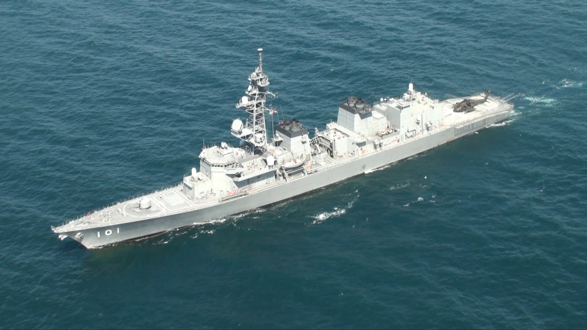 A U.S. Army UH-60 Black Hawk helicopter assigned to the U.S. Army Aviation Battalion Japan, sits aboard the fantail deck of the Japanese Navy destroyer JDS Murasame at sea in the Pacific Ocean Sept. 1, 2013. This historic landing marked the first time a U.S. Army helicopter landed aboard a Japanese ship while conducting an exercise that transported a simulated patient to the ship from a triage center in Shizuoka Prefecture.